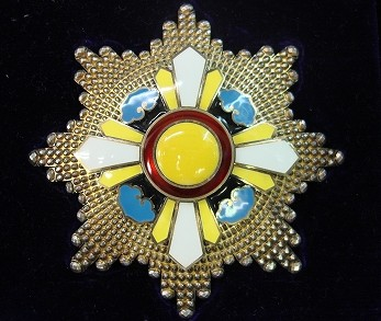 1st Class Order of the Iridescent Clouds